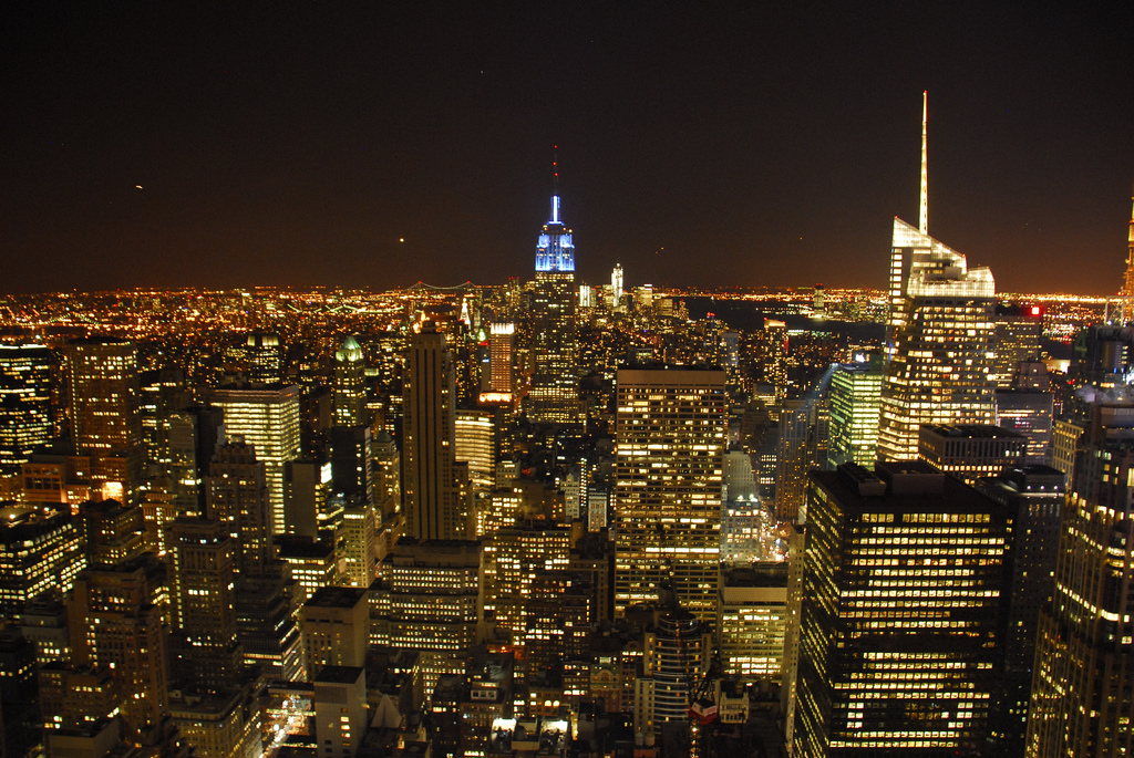 Taken at the Rockefeller Plaza Observation Deck